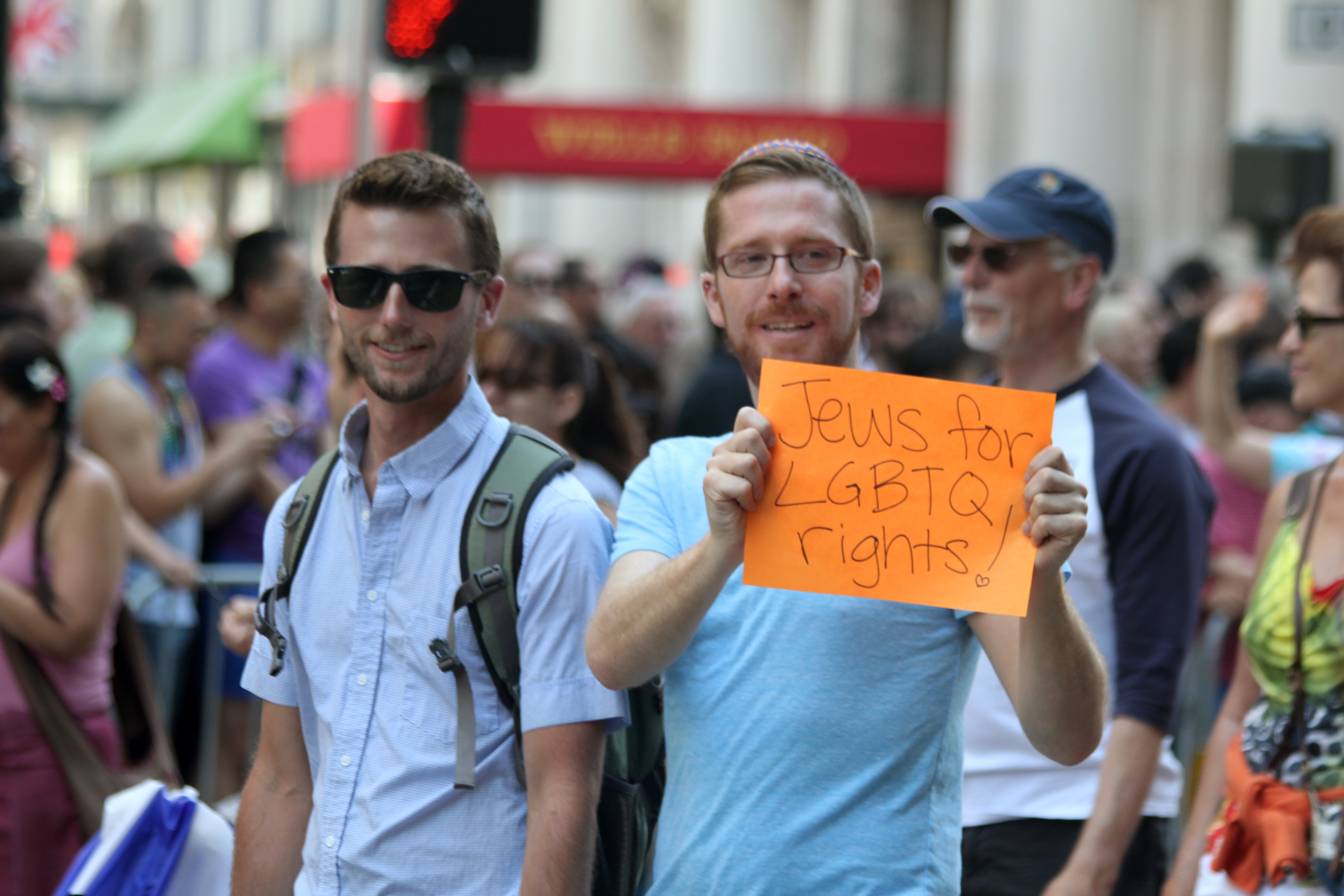 Jews for LGBTQ rights